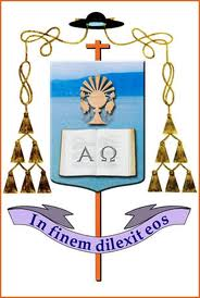 Coat of Arms of Nha Trang Dioecese' Bishop